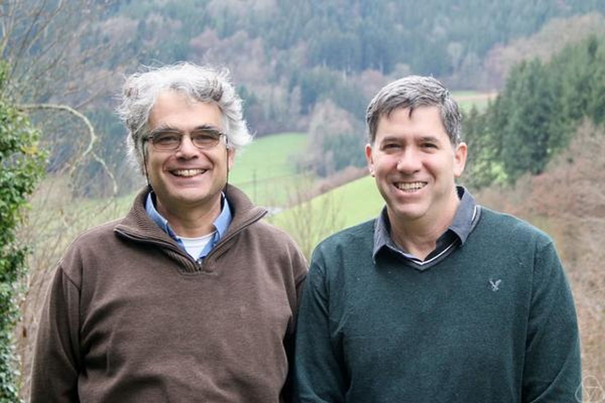 Ehud de Shalit (left), Eyal Z Goren (right), Oberwolfach 2014